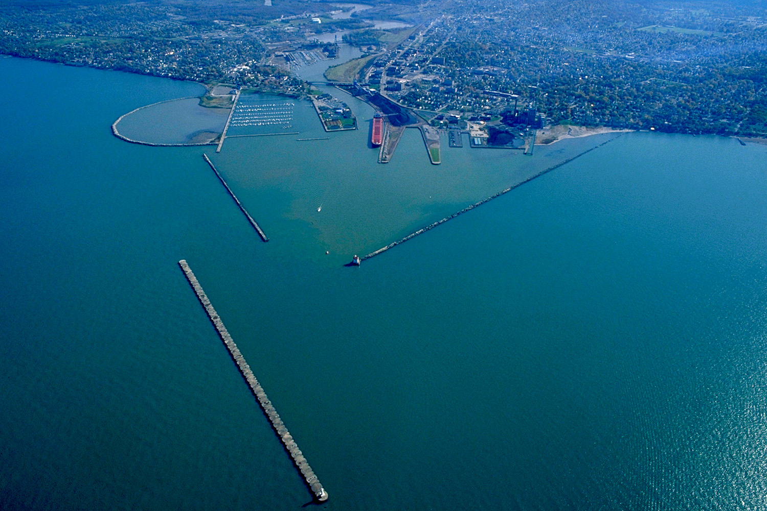 Aerial view of the harbor at Lorain, Ohio, USA. The Black River flows into Lake Erie in Lorain. The view is to the southeast. The U.S. Army Corps of Engineers built the breakwaters for this commercial harbor and built a confined disposal facility (CDF) for storing polluted material from dredging operations. Also constructed a small boat harbor breakwall.